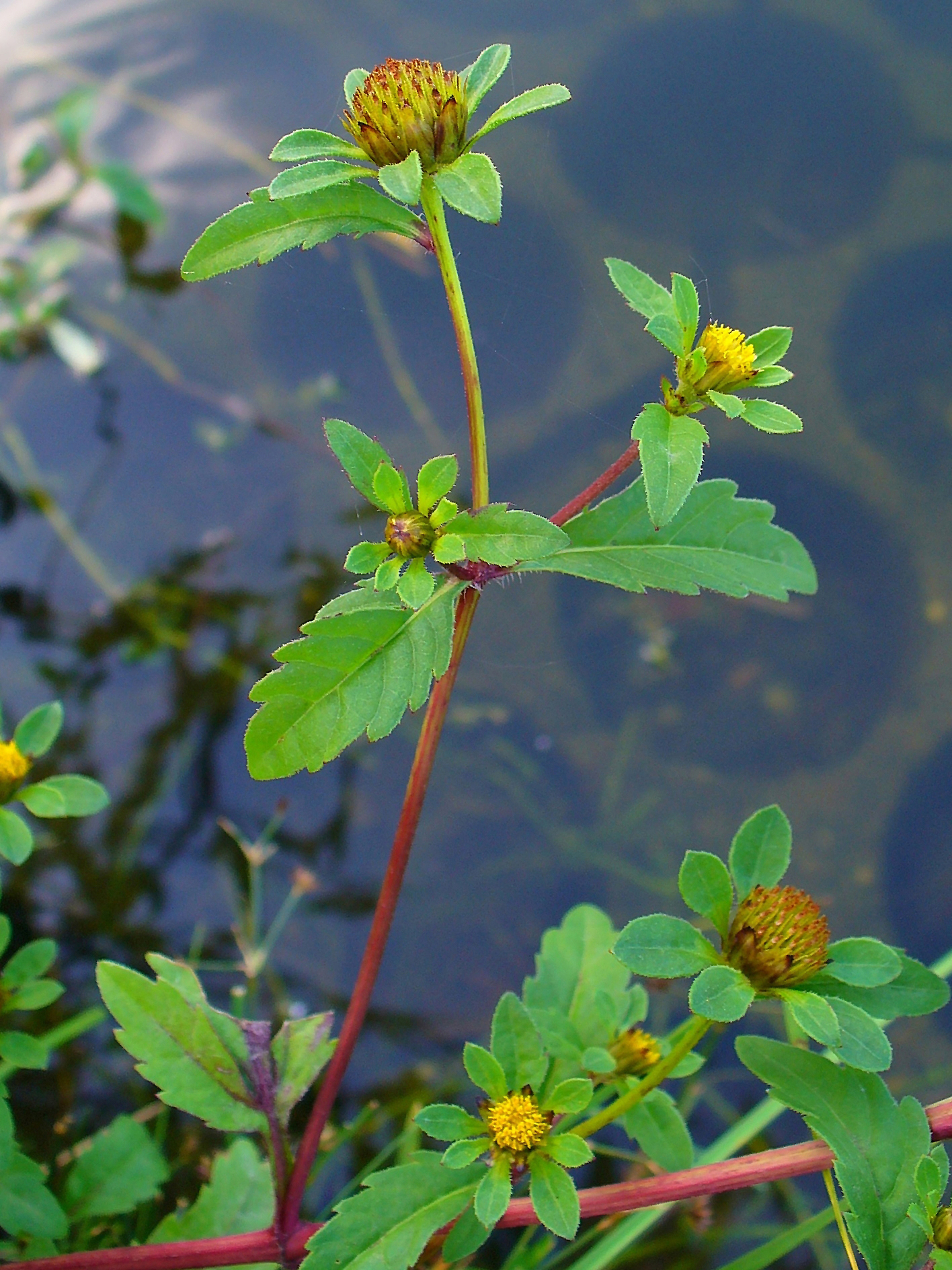 Bidens tripartita, Asteraceae, Three-lobe Beggarticks, Three-part Beggarticks, Leafy-bracted Beggarticks, Trifid Bur-marigold, inflorescences; Karlsruhe, Germany.